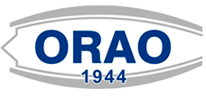 Logo ORAO 1